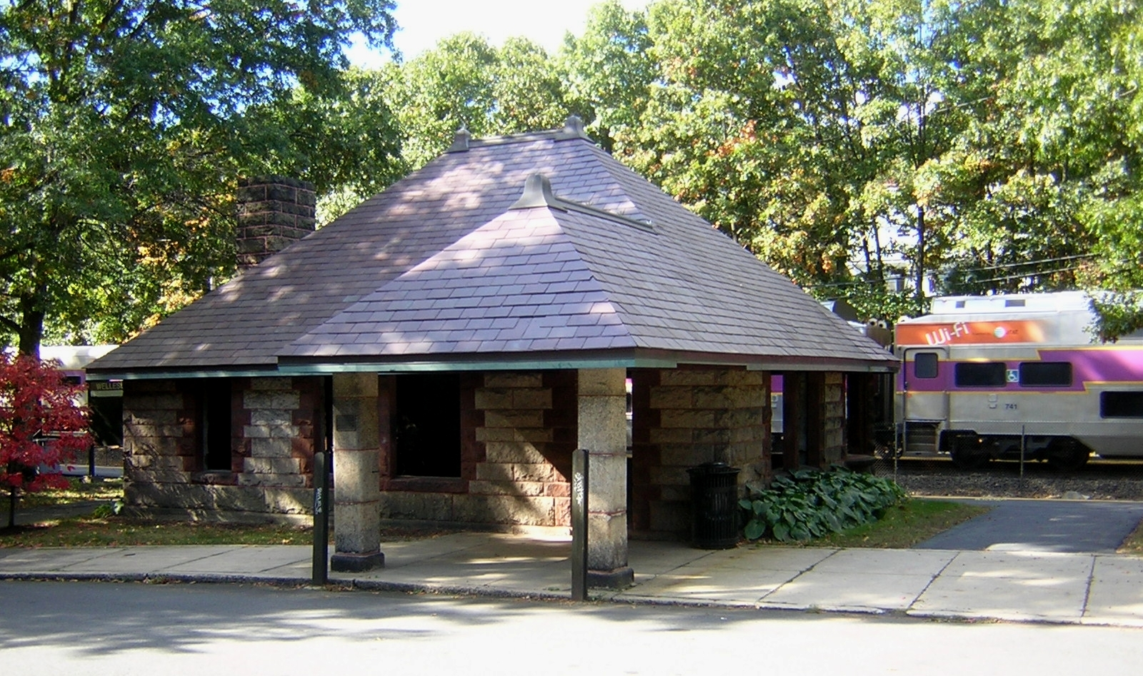 Wellesley Farms Railroad Station, MA